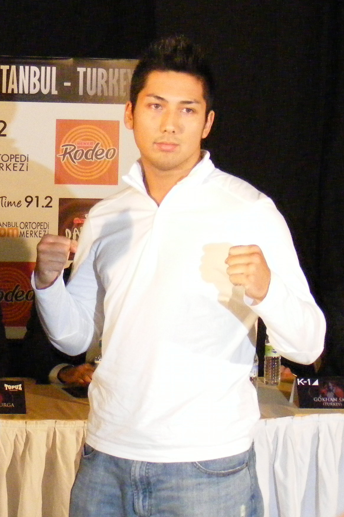 This picture was surely taken by myself during K-1 Fighting Network Turkey 2007. I give permission to Wikipedia's usage